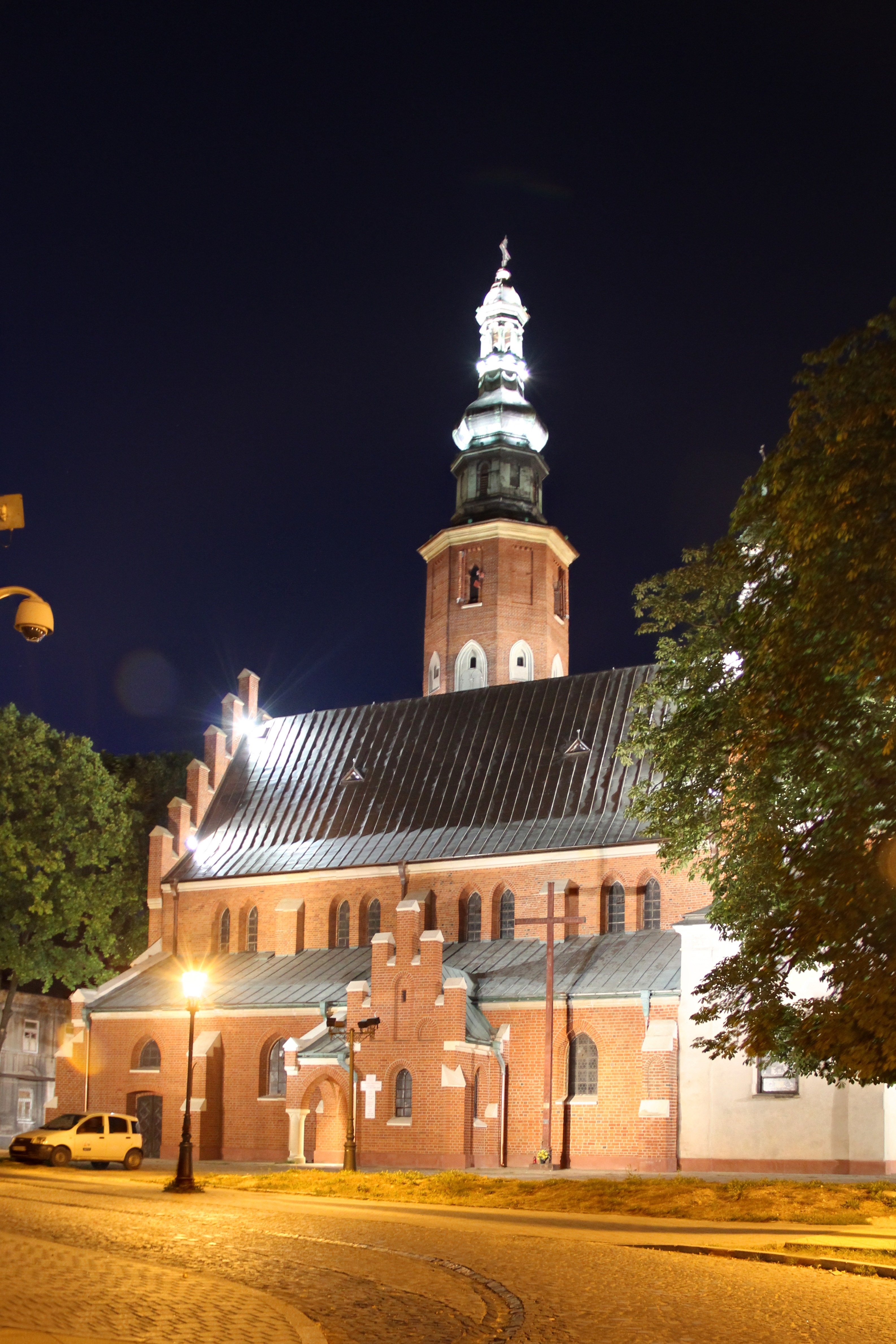 Church of Saint John the Baptist in Radom by night. XIV Century. HDR version